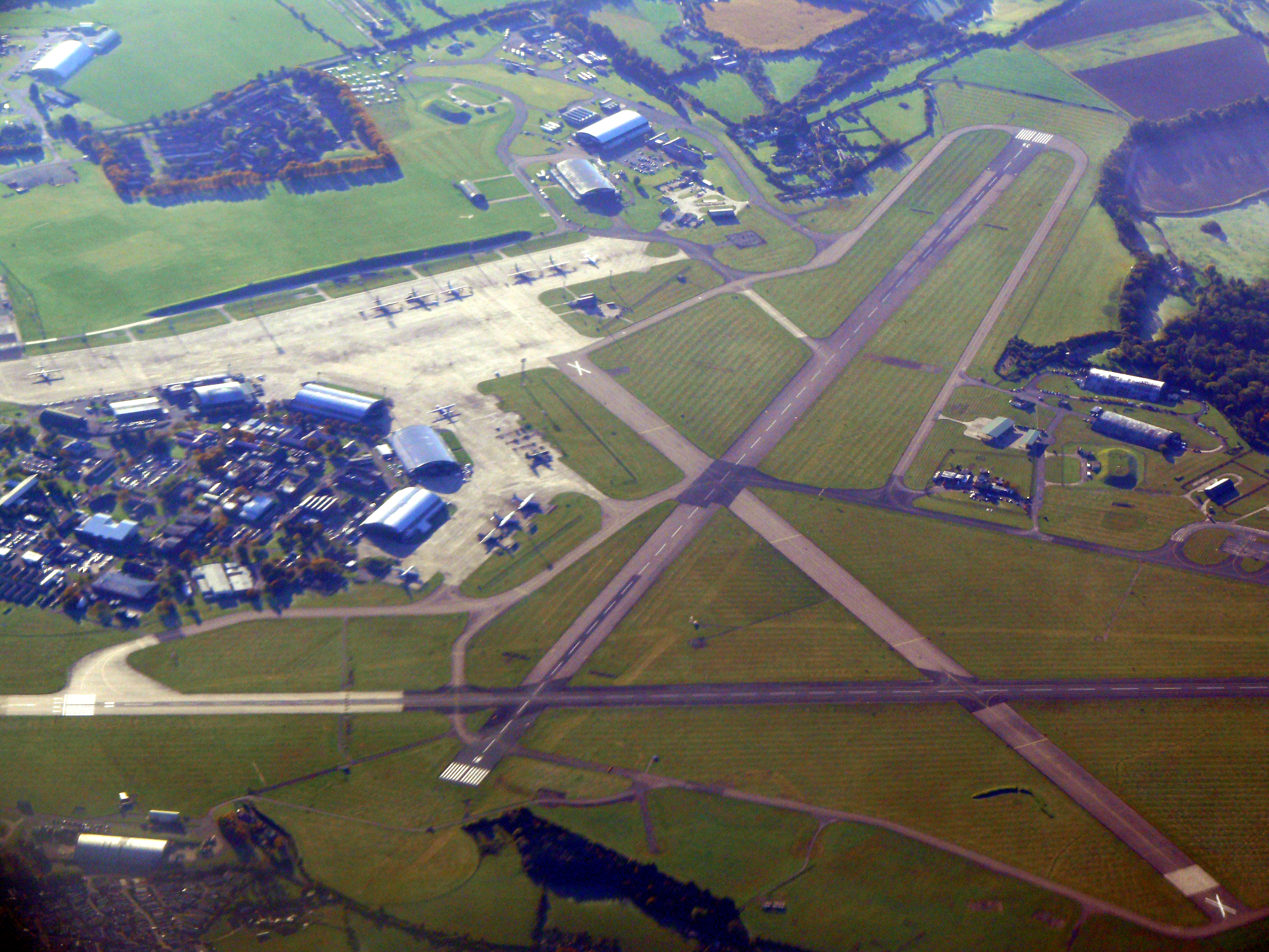 RAF Lyneham is a Royal Air Force station near Lyneham in Wiltshire, England. It is the home of all the Lockheed C-130 Hercules transport aircraft of the Royal Air Force.